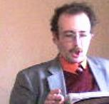 Valery Rabinovich